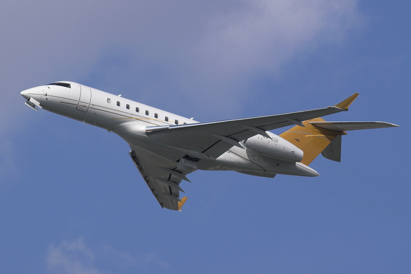 Bombardier Global 5000 4X-COI, owned and operated by Arkia.